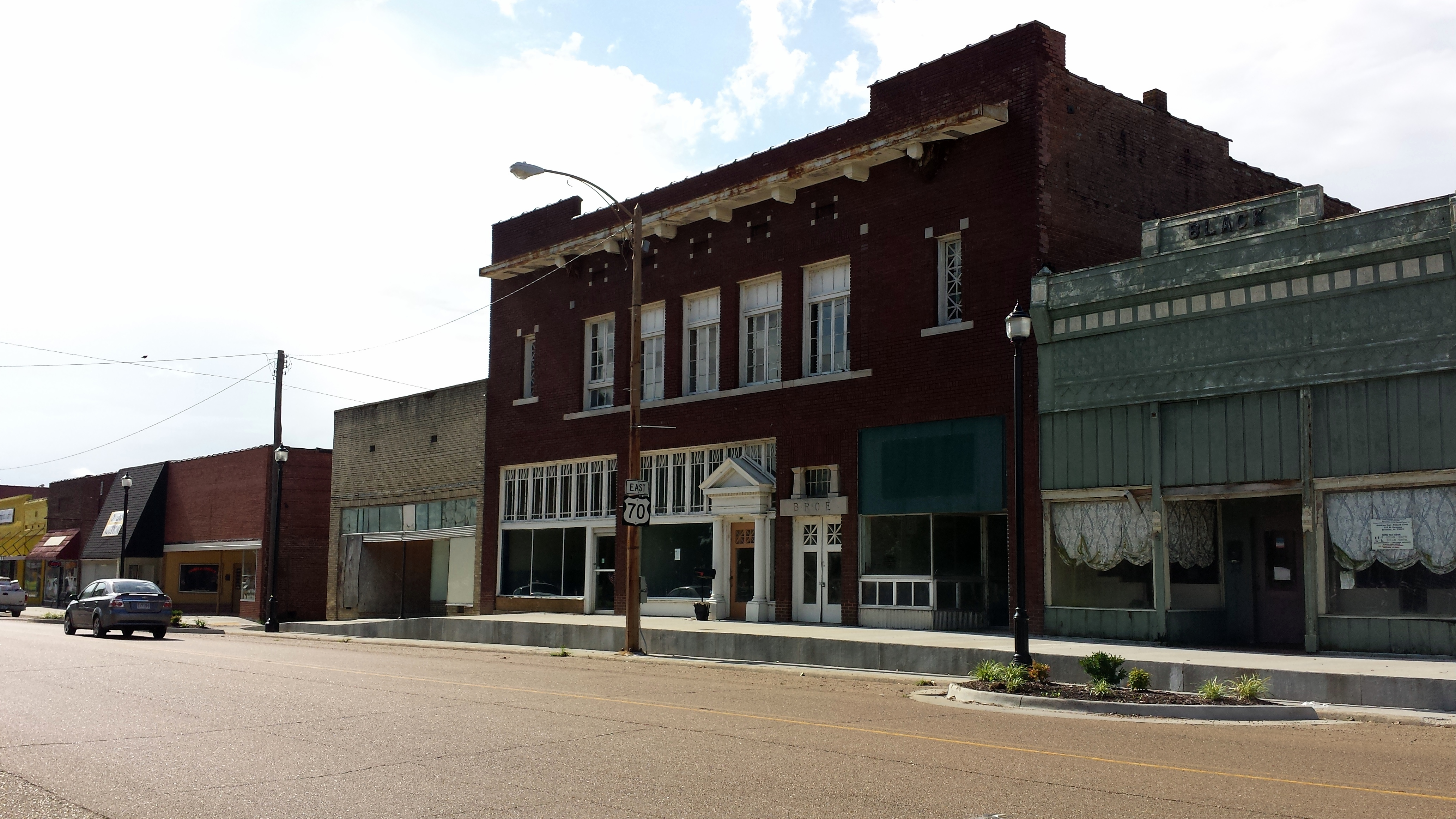 Downtown Brinkley along US 70. The two-story brick building in the center is the former Monroe County Bank Building, which is listed on the U.S. National Register of Historic Places.